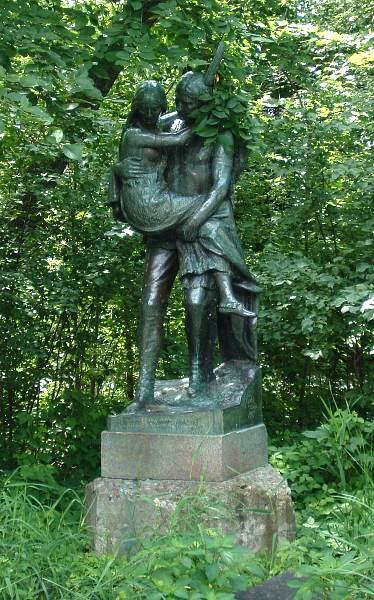 Statue of Hiawatha (Longfellow's Hiawatha) carrying Minnehaha at Minnehaha Park in Minneapolis, Minnesota. Image by Mulad. A plaque at the site says: Hiawatha and Minnehaha by Jacob Fjelde Erected in 1911 by means of funds raised through the efforts of Mrs. L.P. Hunt of Mankato, and contributed principally by the school children of Minnesota.